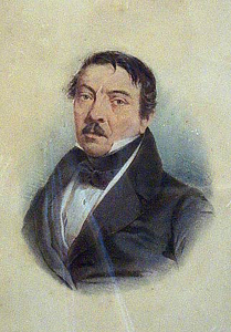 Ramon Carnicer i Batlle, Catalan opera composer. Painting in the Museu Comarcal de l'Urgell